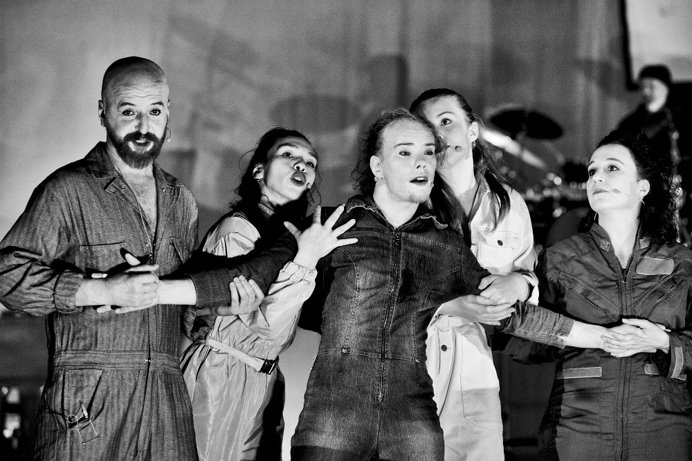 Pop Amok - Autor: Markus Riexinger - Inszenierung, Bühne: Kurt Bildstein, Assistenz, Co-Regie u. Organisation: Peter Pruchniewitz